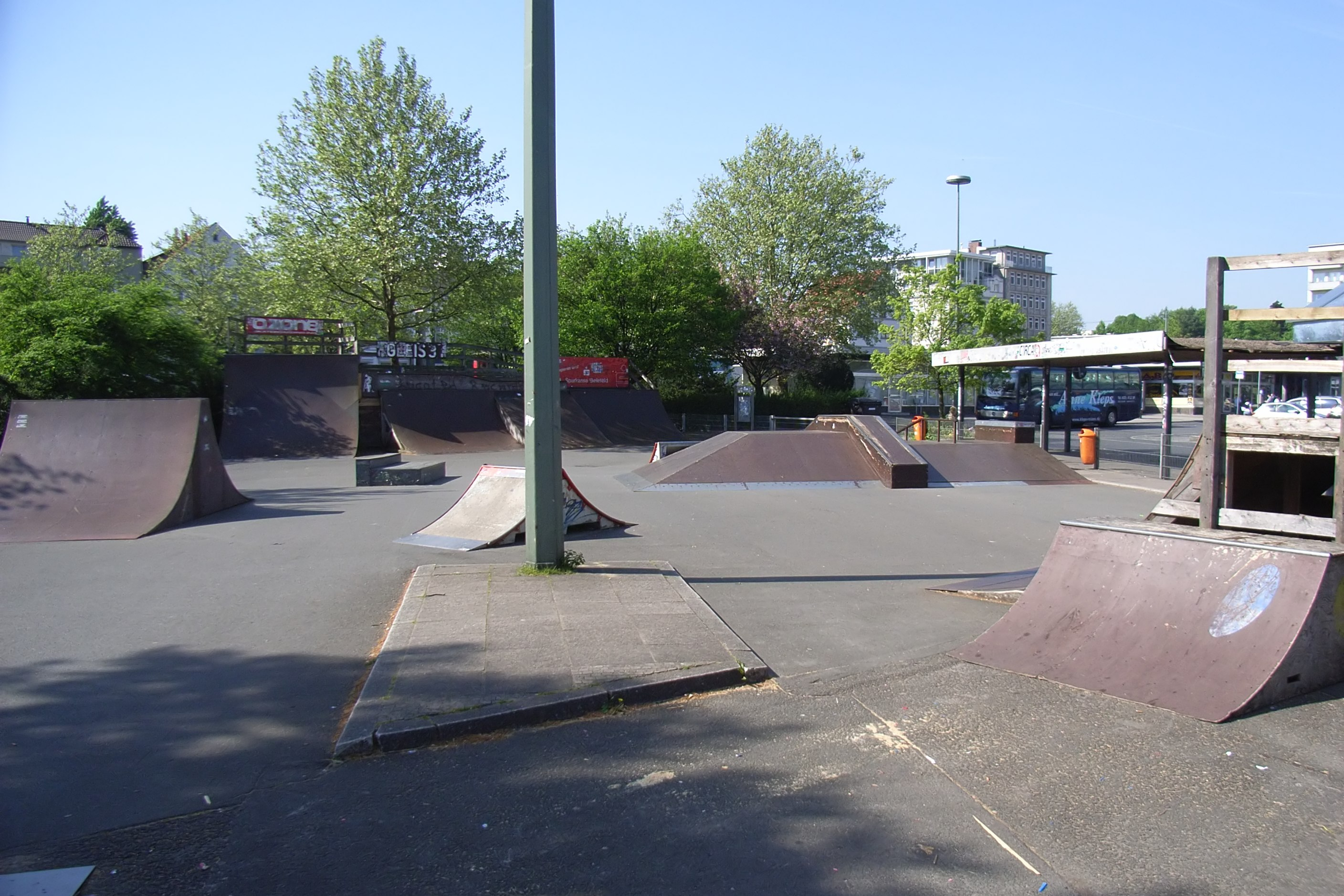 Bielefeld, Germany: Skatepark at the Kesselbrink, a square in the city centre.